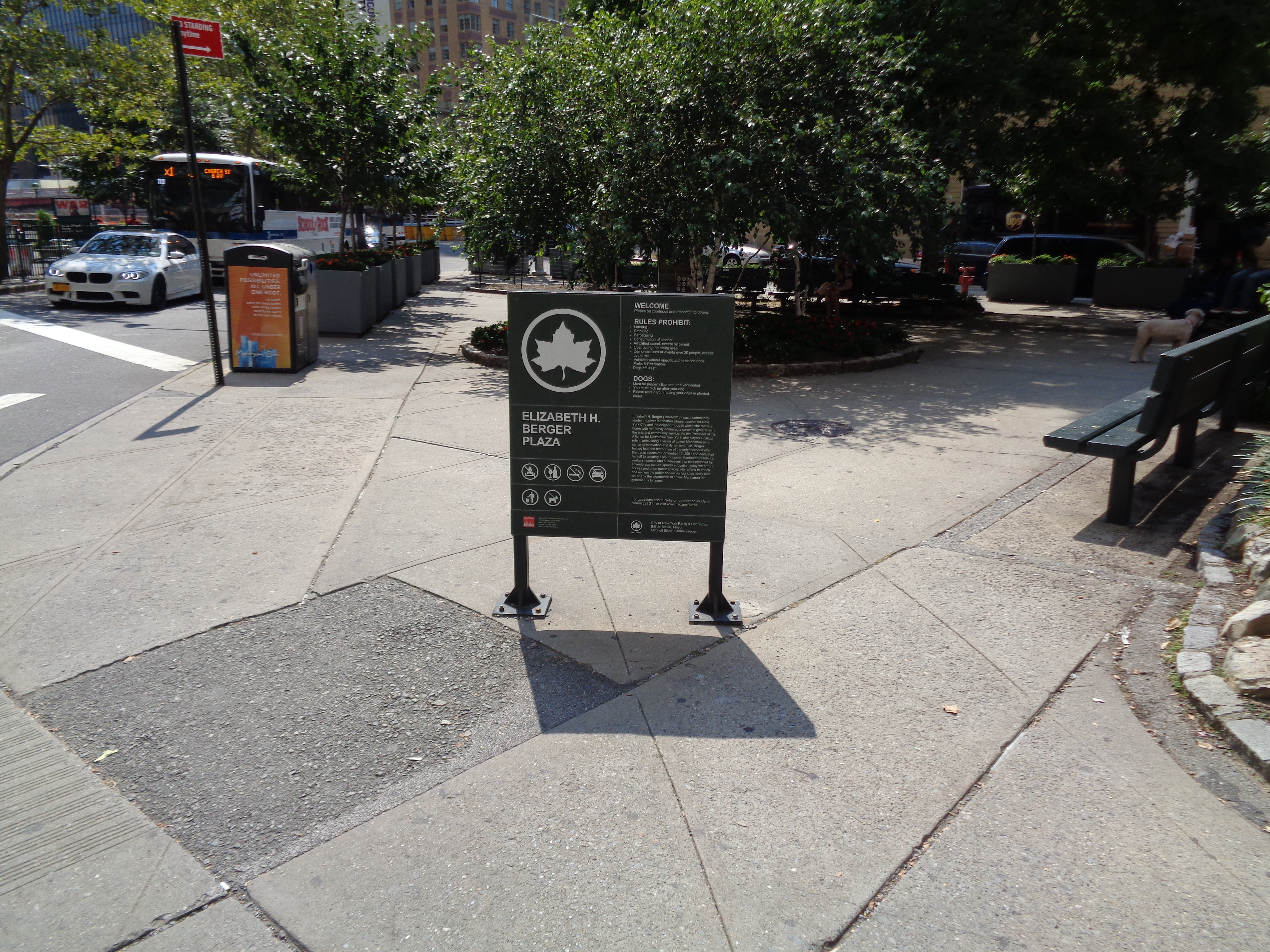 Elizabeth H. Berger Plaza, between Trinity Place, Greenwich Street, Edgar Street, and the Battery Tunnel approaches in the Financial District, Manhattan.